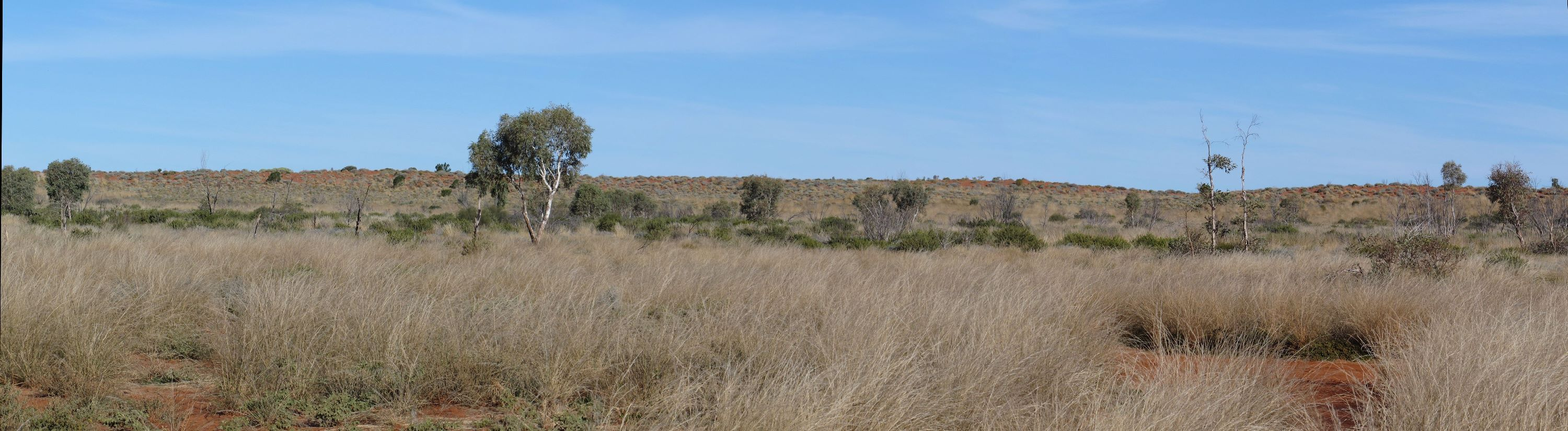 IMG_9115-17 panorama Speedo 421029 Thurs afternoon 14:53 of 16th. See Gibson Desert Nature Reserve.